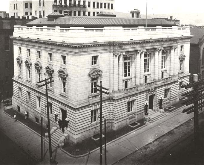 Wheeling, West Virginia U.S. Post Office, Court House, and Custom House (1907) Completed in 1907. Architect: Marsh & Peters Still in use by the U.S. District Court for the Northern District of West Virginia; the U.S. Circuit Court for the Northern District of West Virginia met here until that court was abolished in 1912.